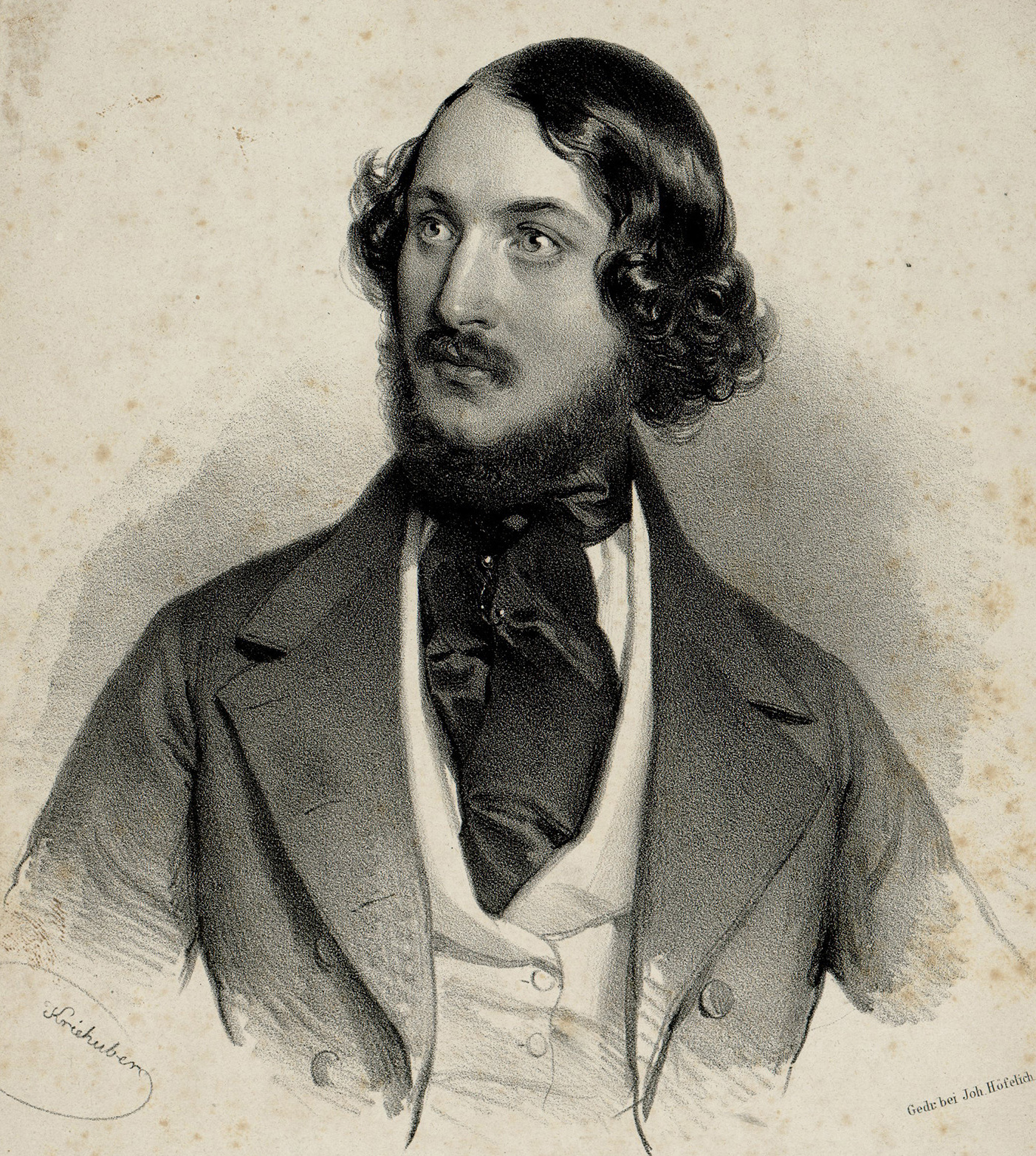 Portrait of Filippo Coletti, baritone (1811-1894), 1841.